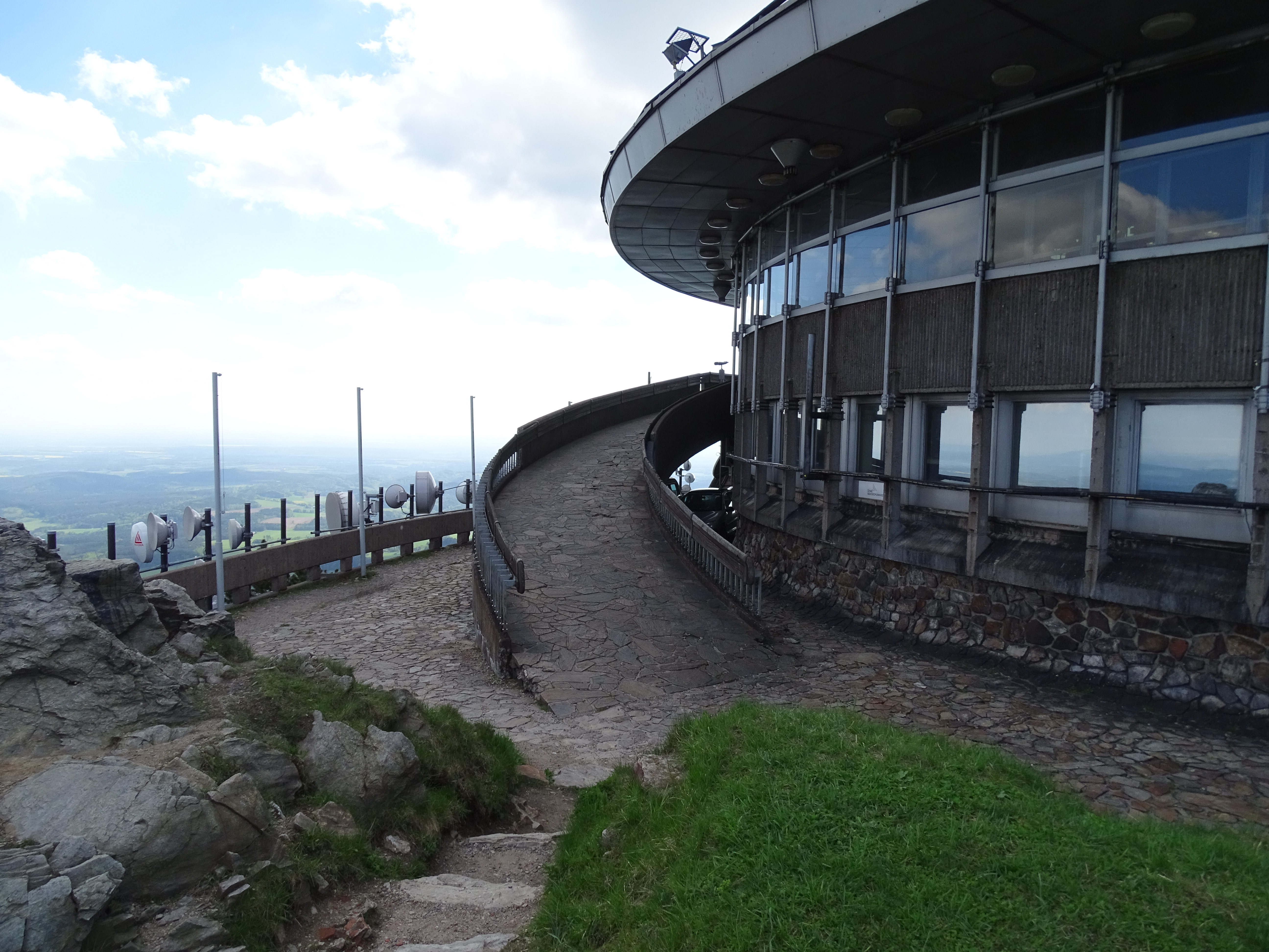 Liberec XIX-Horní Hanychov, Liberec District, Liberec Region, Czech Republic. Ještěd hill, a ramp of the restaurant.